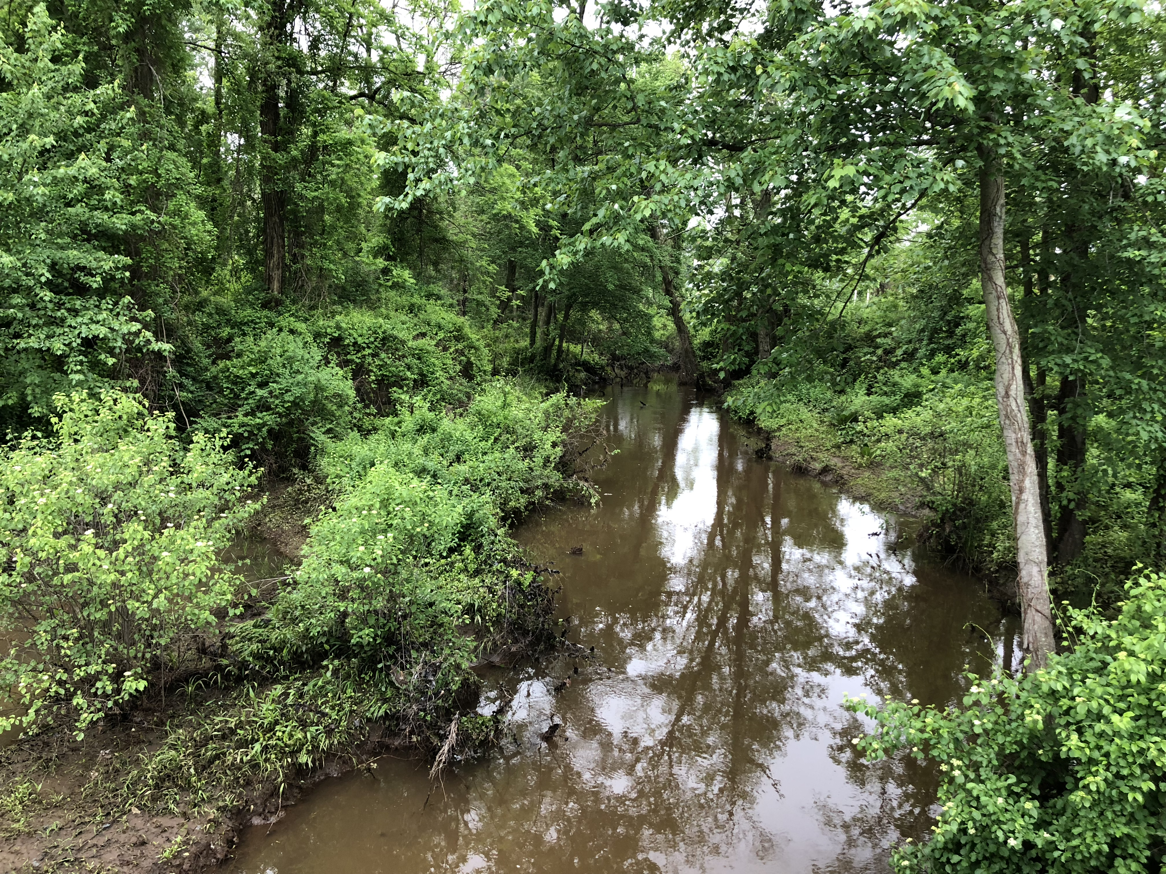 View south up the Millstone River from New Jersey State Route 33 in Millstone Township, Monmouth County, New Jersey